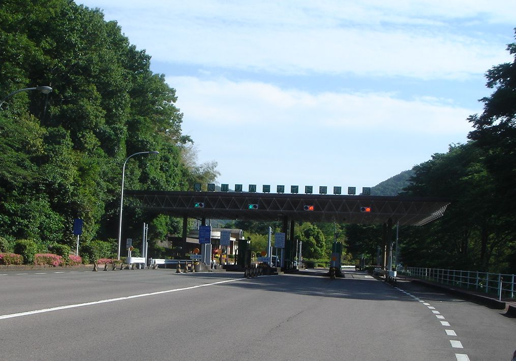 Nagaragawa riverside toll road(長良川リバーサイド有料道路),Gifu,Gifu,Japan(岐阜県岐阜市)で撮影